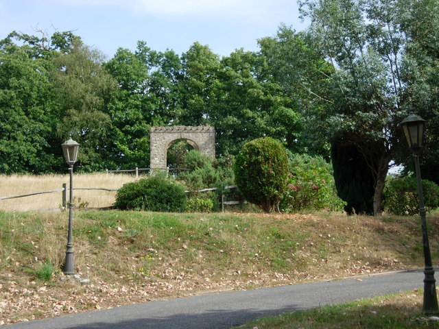 Monument in the former Montreal Park Sevenoaks. This monument was built to commemorate the reunion of two brothers after many years abroad. It now stands in isolation in the grounds of Montreal Park Farm.